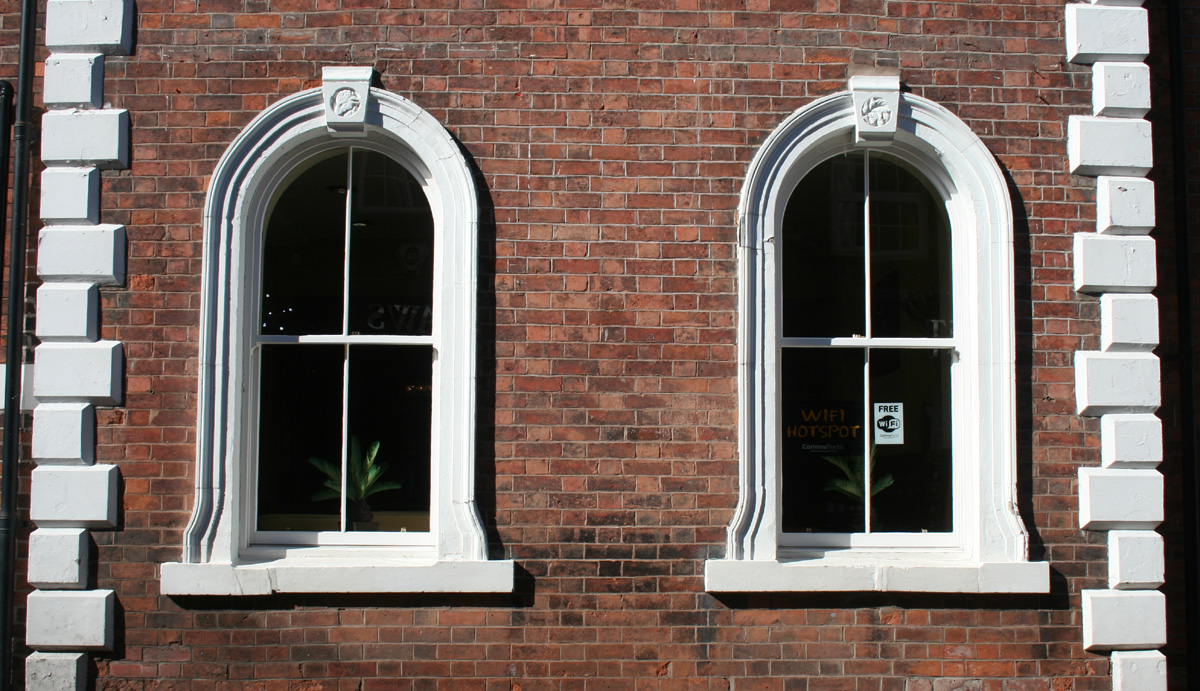 Detail of Chatterton House (former Lamb Hotel), Hospital St, Nantwich, Cheshire